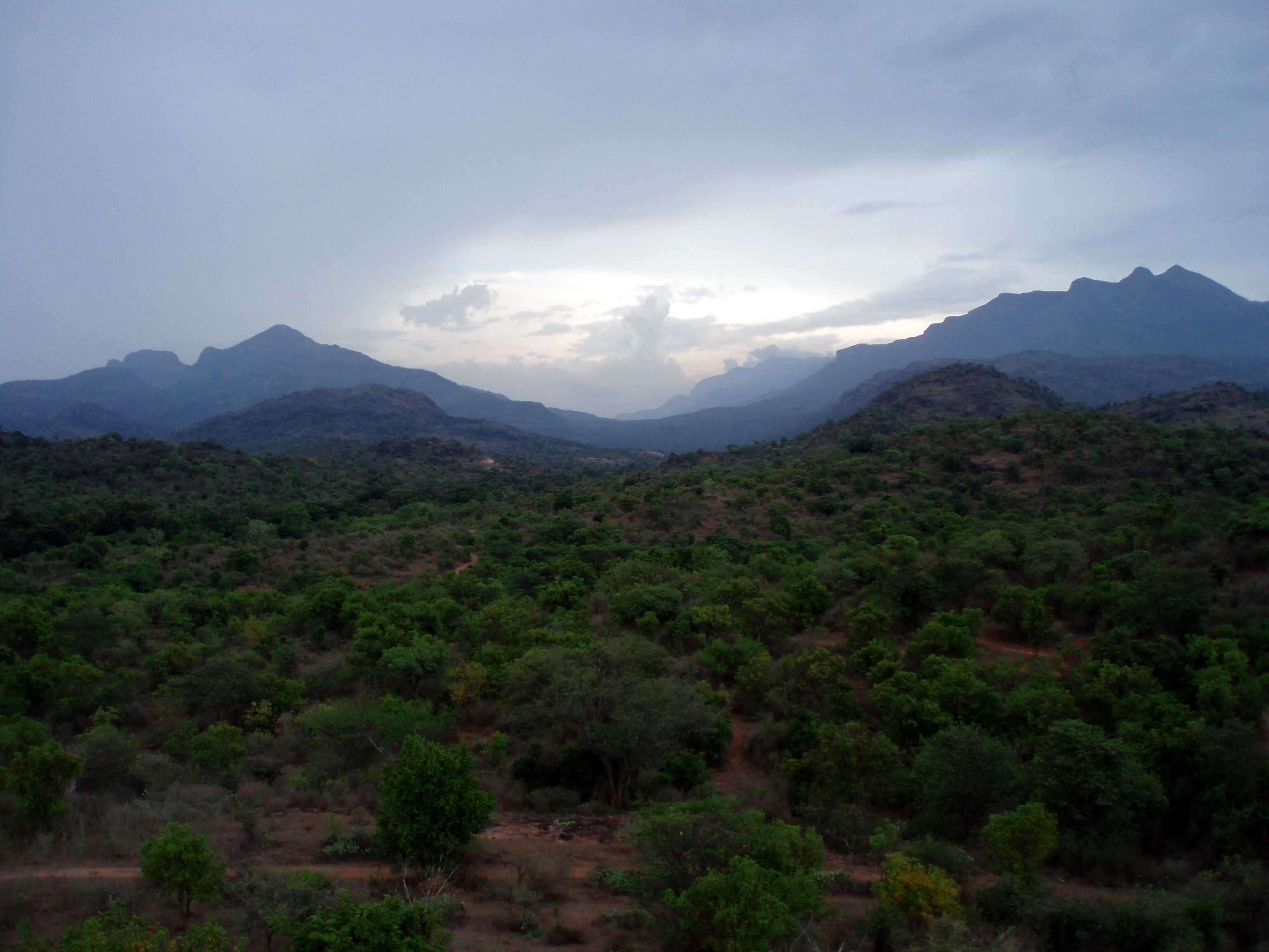 Author: Matthieu Aubry Date: 9/4/2006 Source: Chinnar Wildlife Sanctuary Permission: Feel free to use all my materials under GFDL License